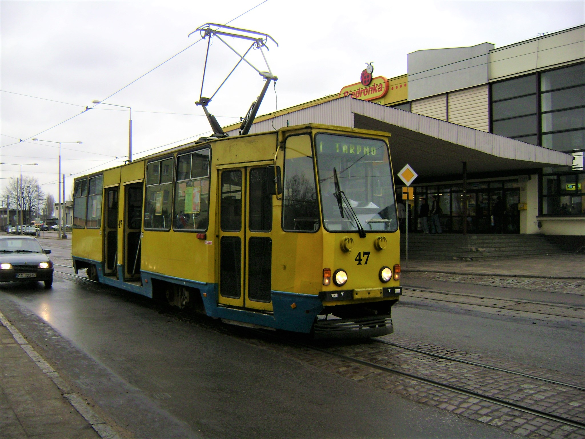 Tram in Grudziądz